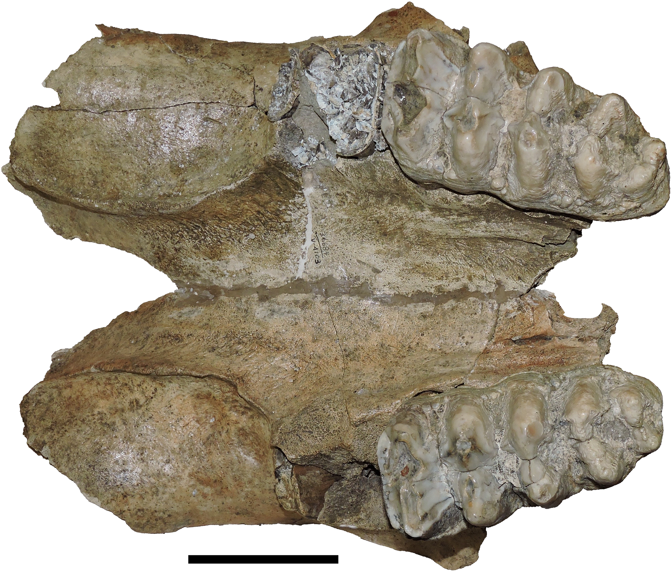 Mammut pacificus, Partial cranium (UCMP 36684) in ventral view, with left and right M3; Dolan Canyon, California, Upper Pleistocene; Scale 10 cm